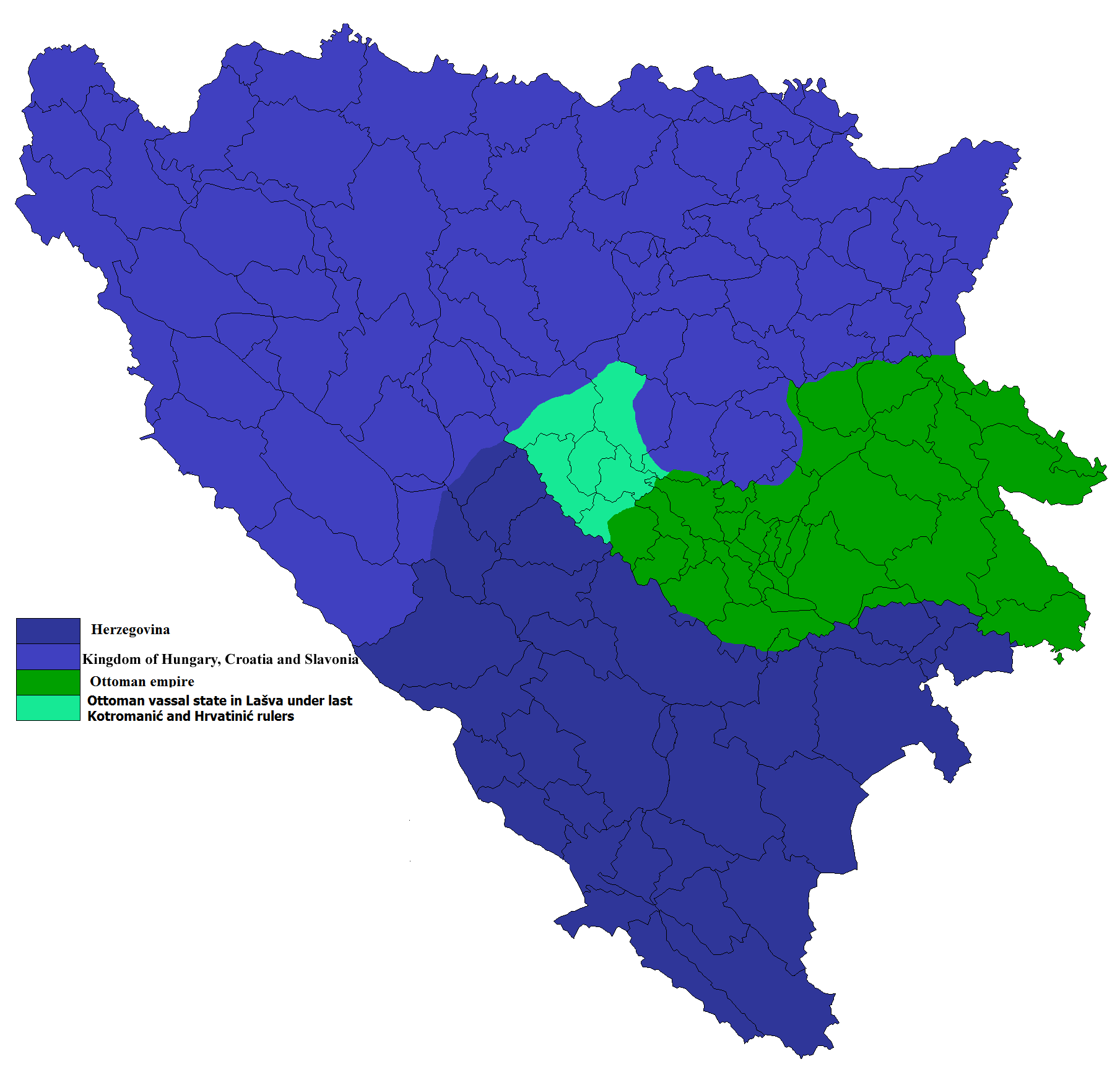 territory of todays BiH in 1463